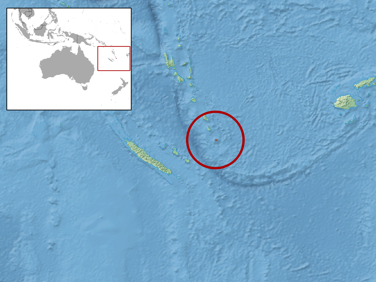 geographic distribution of Emoia aneityumensis